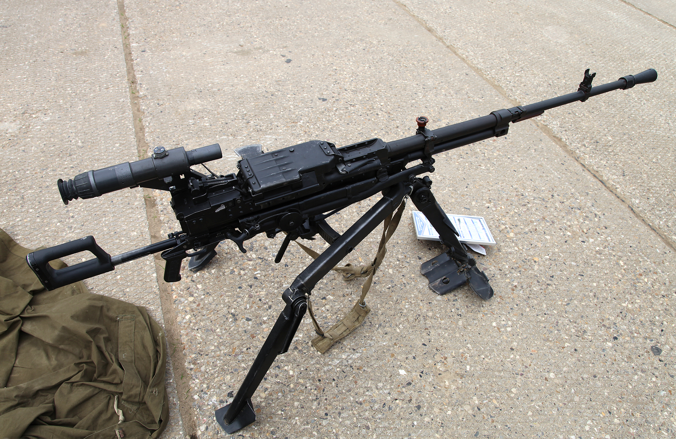 NSV machine gun